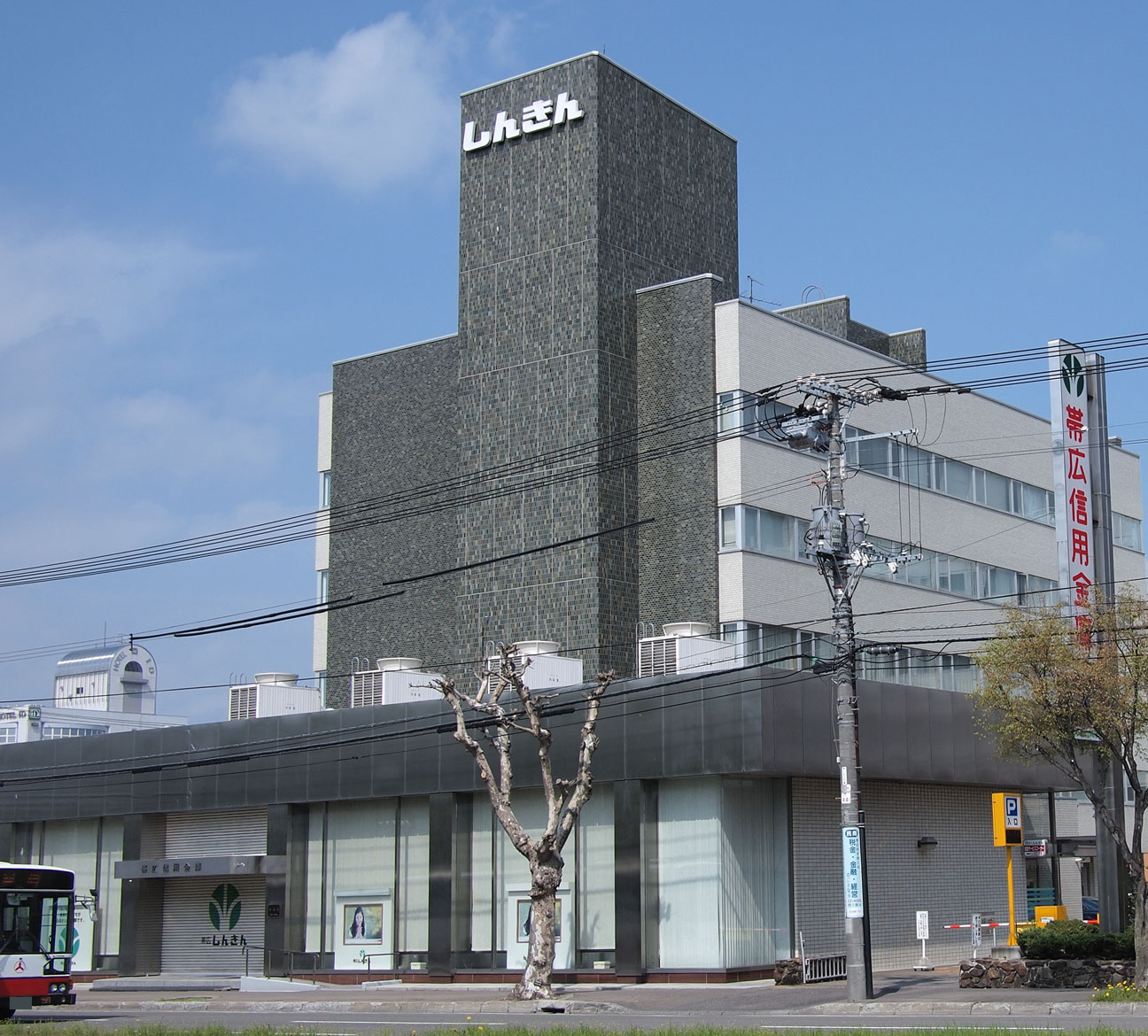 Obihiro Shinkin Bank, Obihiro, Hokkaido, Japan